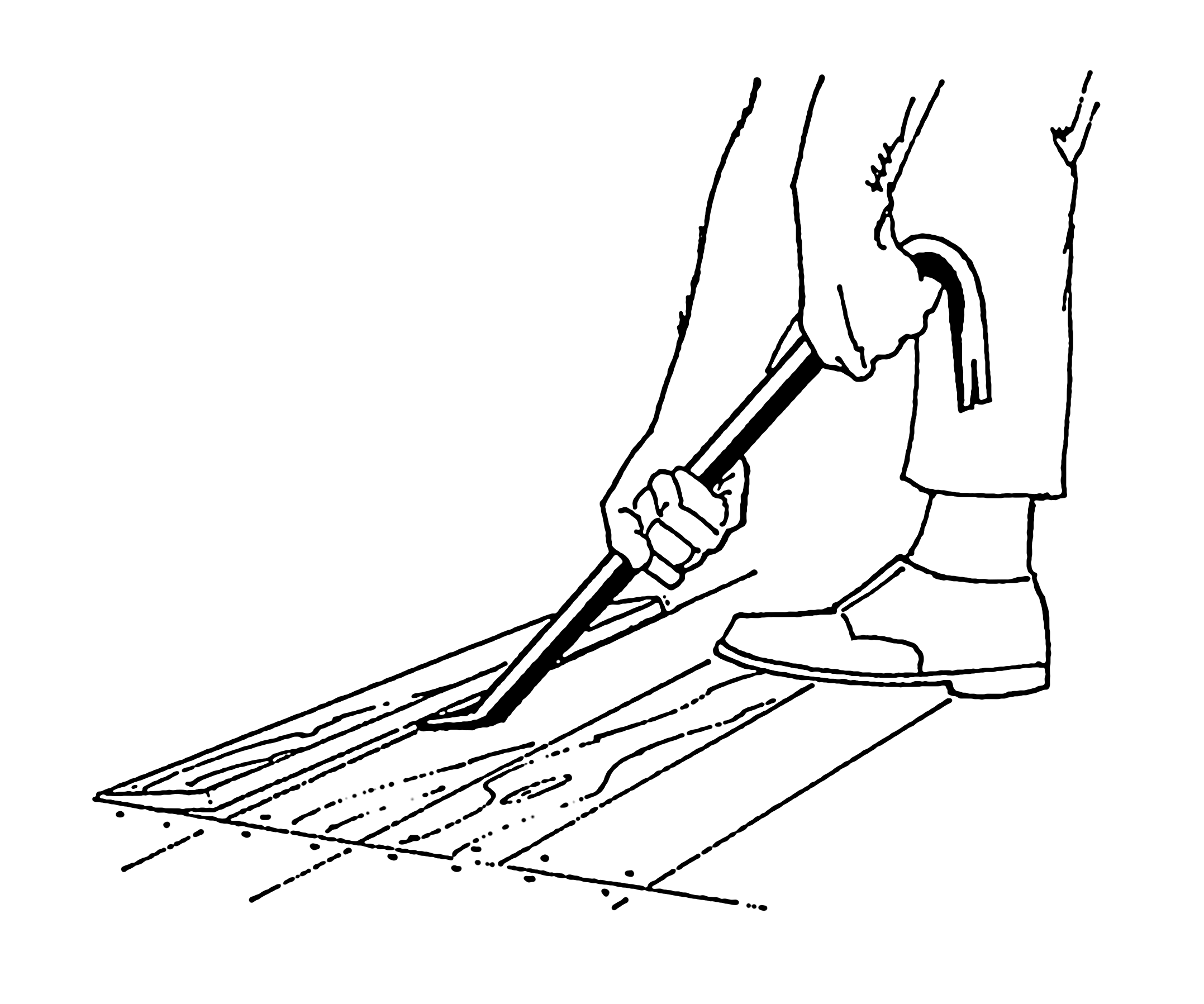 Line art drawing of a man using a crowbar.